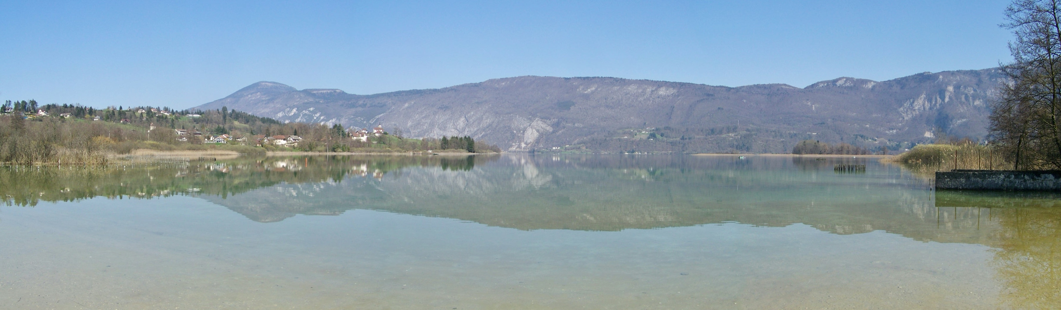 Panoramic sight, from Lépin-le-Lac, of the lac d'Aiguebelette lake and the chaîne de l'Épine mountain range, in Savoie, France.